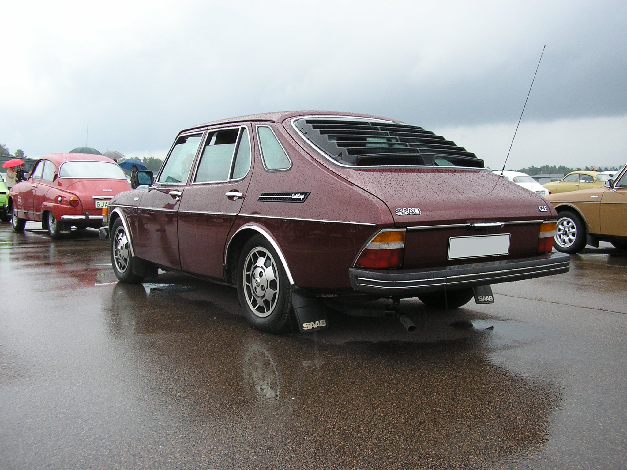 A 1979 SAAB 99GLE five door combi coupé with EMS rims. Taken at the International SAAB Club Meeting 2006.